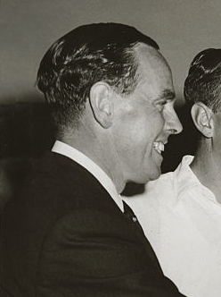 3rd Ashes Test at MCG. After the first days play the Aussies collected in the dressing room to toast each other for the new year. Ian Johnson